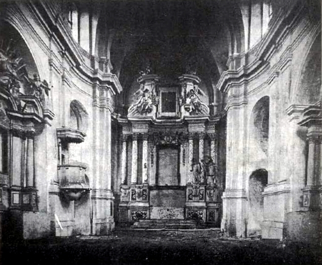 The main altar, the pulpit and the side altars in the church of the Benedictine Sisters in Drohiczyn, Poland. The interior was destroyed by the Russians in 1940. Photography from 1875